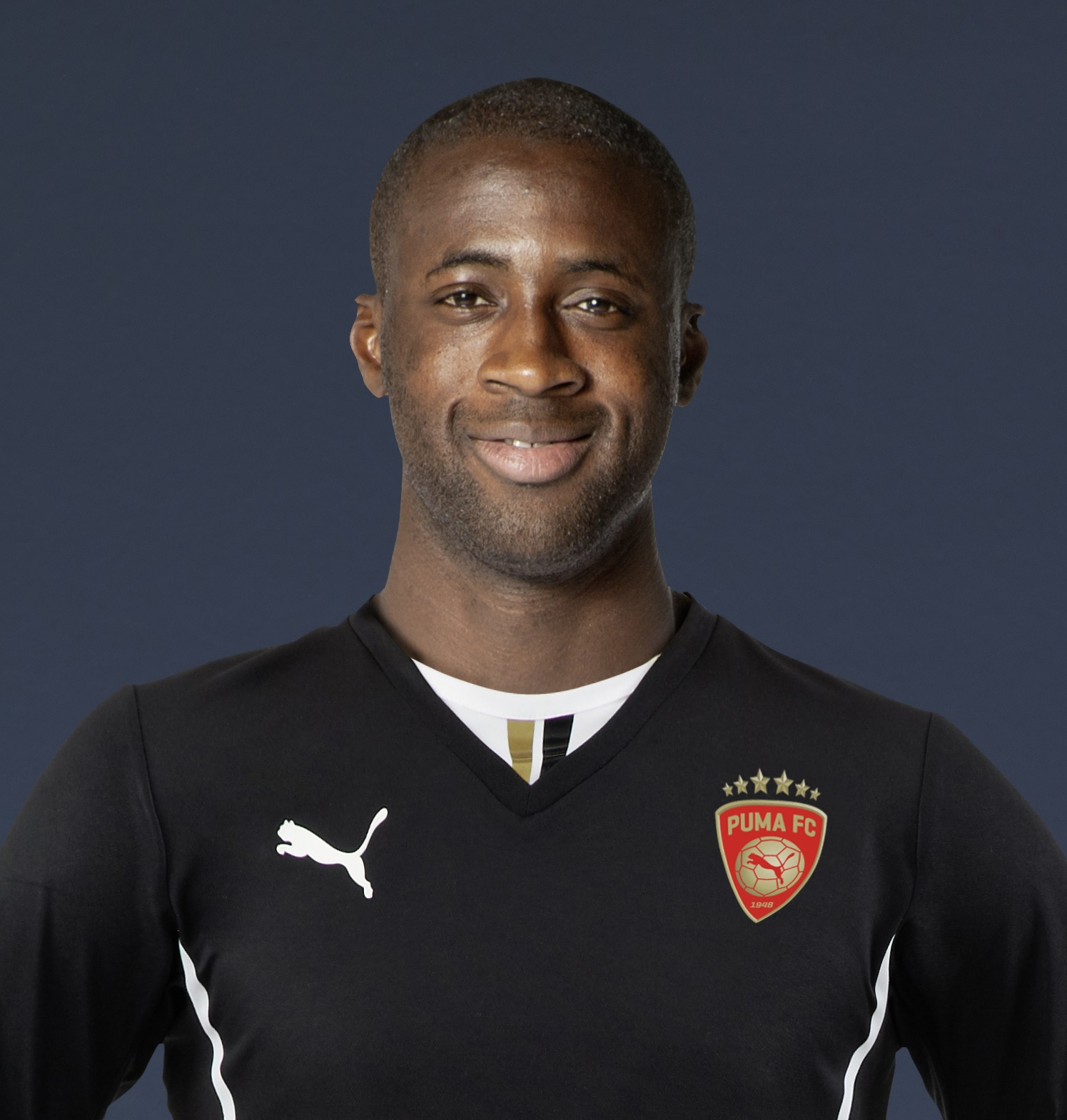 Footballer Yaya Touré in a promo photo for Puma AG.